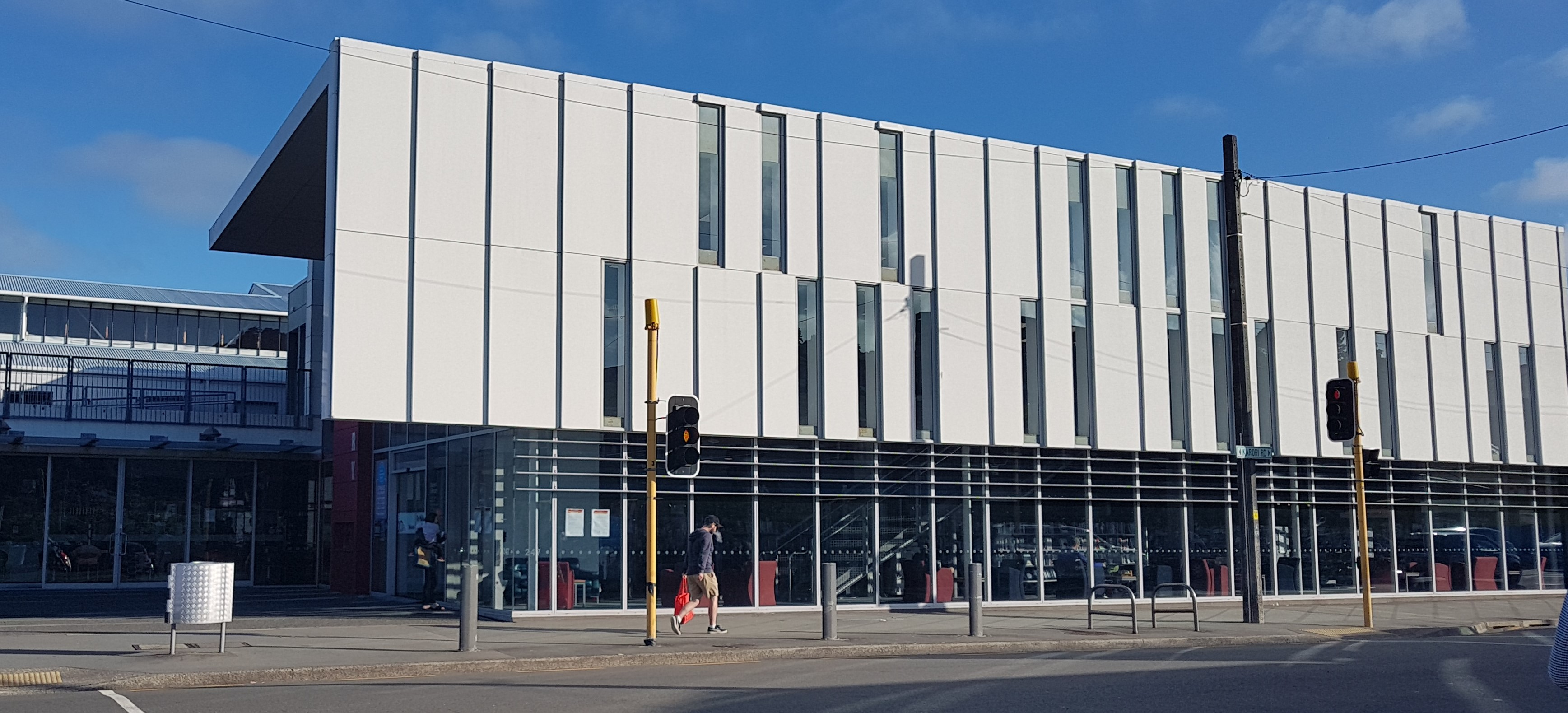 Karori Library is a branch in the Wellington City Libraries network. It is located at 247 Karori Road, Karori, Wellington, New Zealand. The present two level building was opened in November 2005. Warren and Mahoney (2005) were the architects. The building architecture design was positively received. There is a cafe adjacent as part of the building. Food and drink can be consumed in parts of the library. The site has offered a library service since the 1840's when the library originally operated from the community hall.